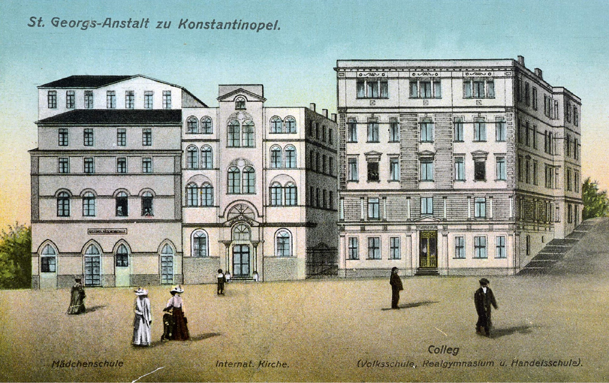 St. George's Austrian High School and Church depicted in a postcard from 1900.